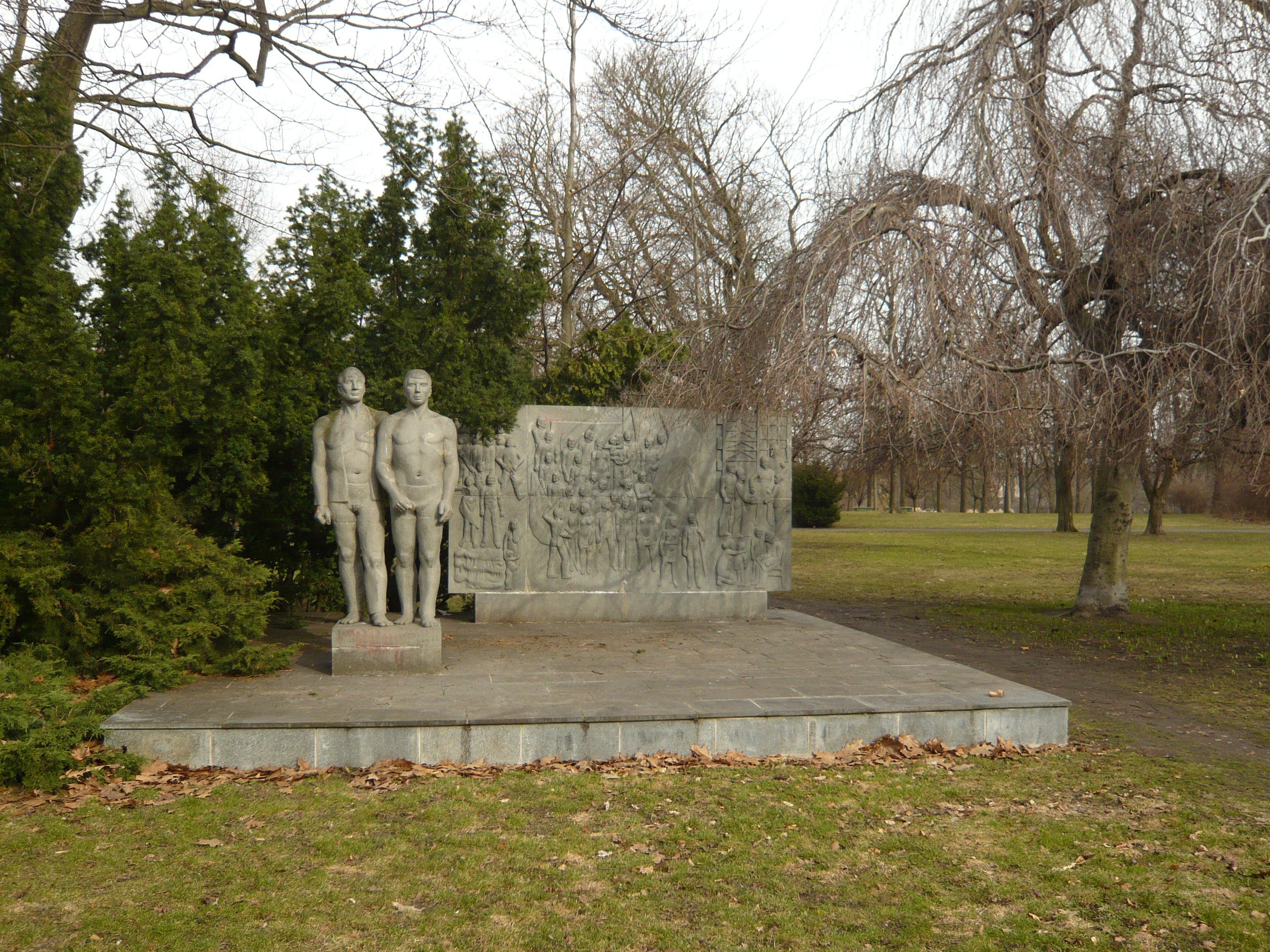 Memorial for the anti-fascist resistance fighters at Park at Lake Weisser See at Berliner Allee in Berlin-Weissensee, Germany